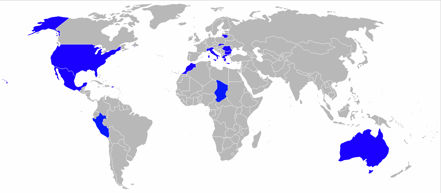 Map of world operators of the C-27J Spartan